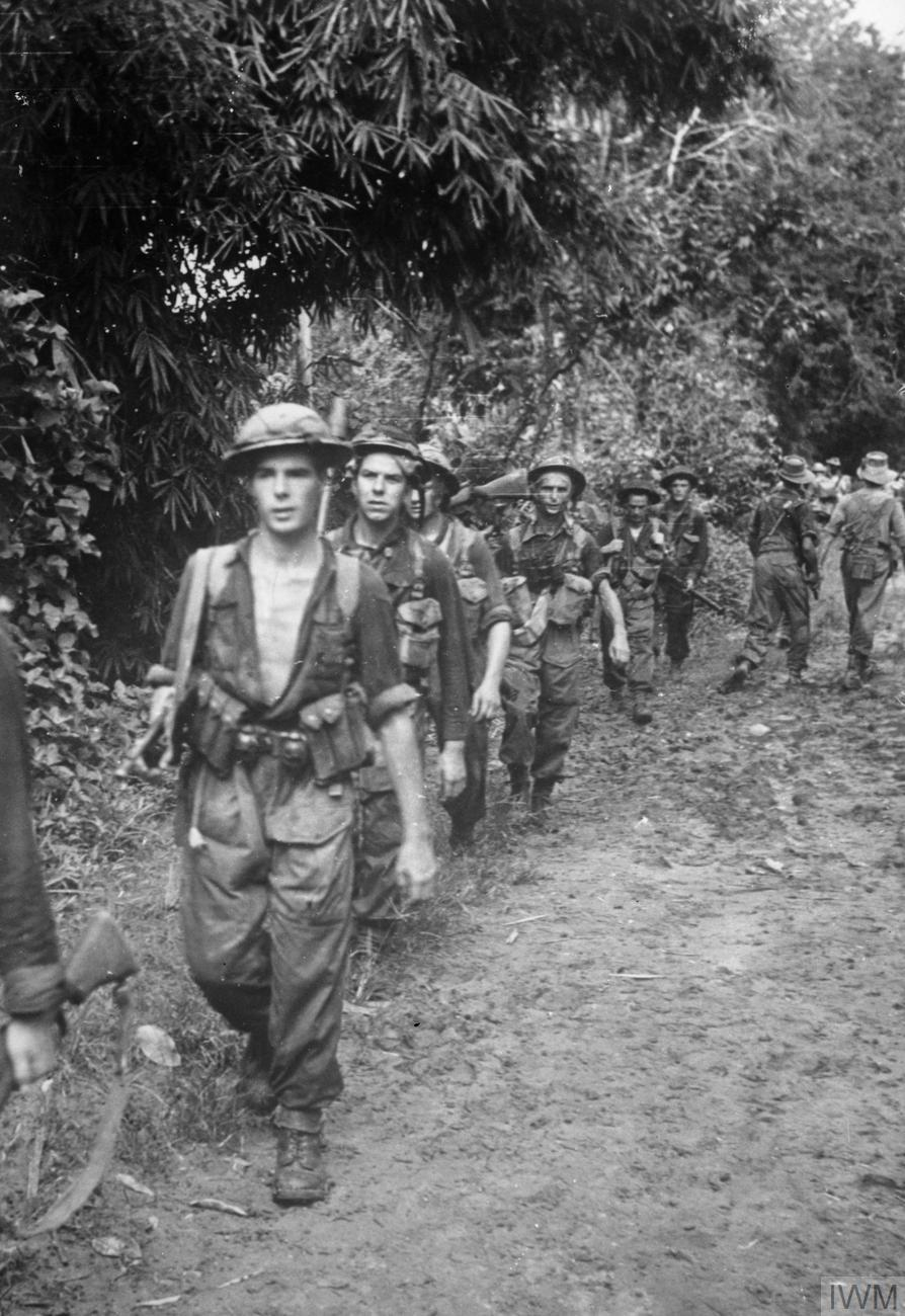 The British Army in Burma 1944 British troops marching through the jungle, 1944.